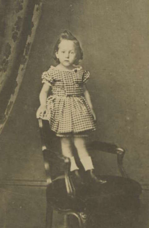 Billy Hughes at about the age of four (c. 1866), when he was living in London. He is unbreeched, i.e., not yet allowed to wear trousers, as was the custom for young boys at the time.